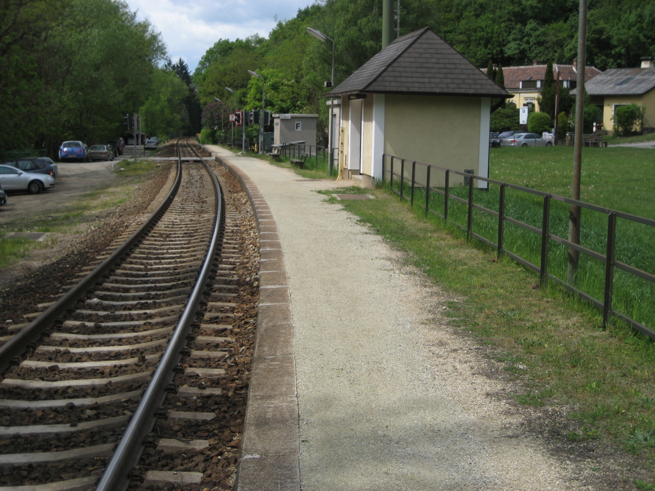 Klein-Wien train station in Lower Austria